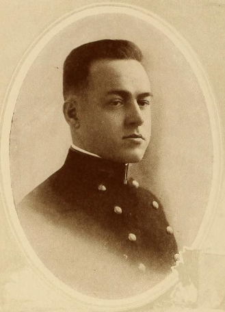 Arthur Tenney Emerson, USNA Class of 1916. He was the 31st Governor of American Samoa, from 22 April 1931 to 17 July 1931.